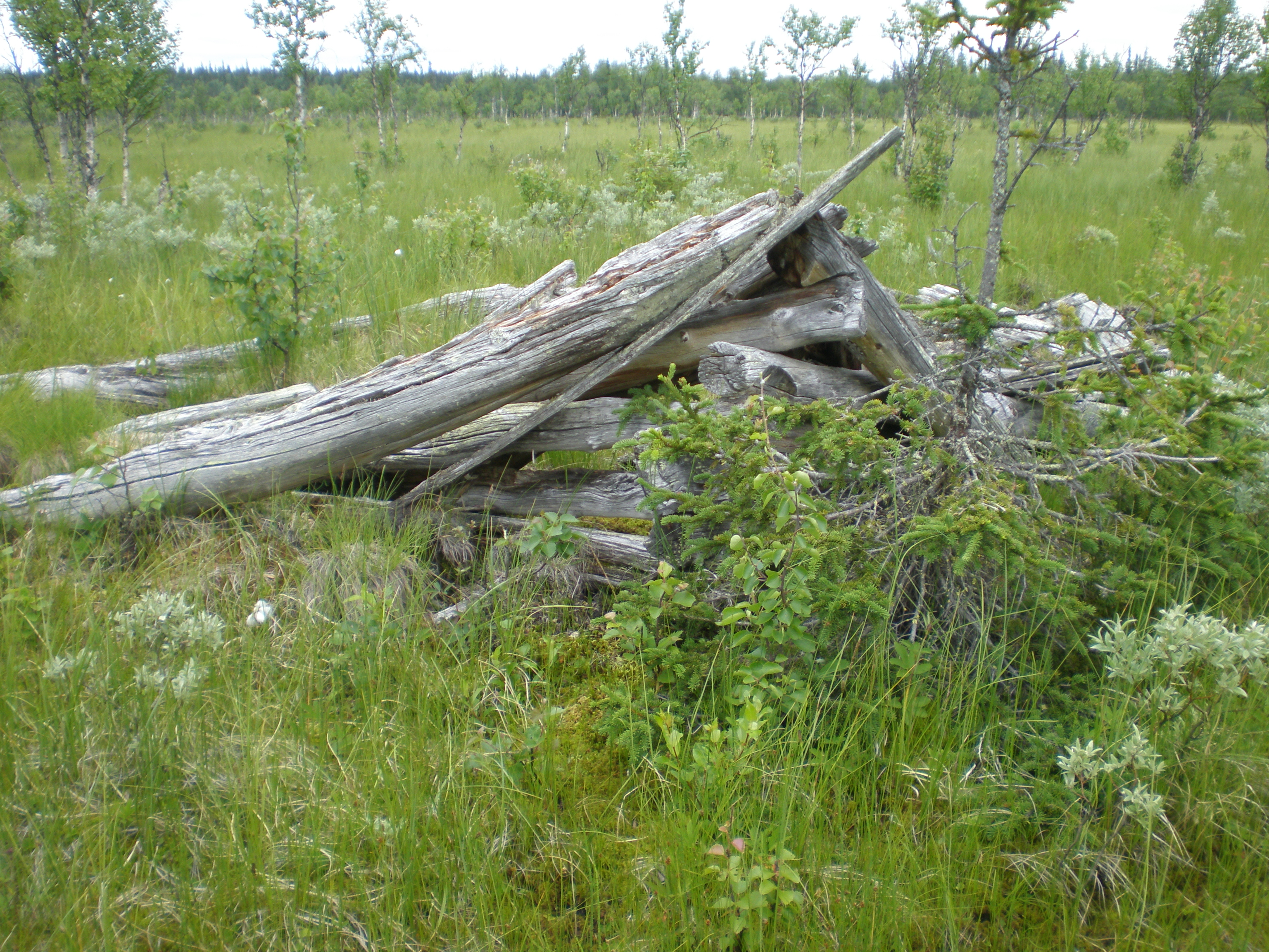 Old barn situated in, Grena, north of Swdeden